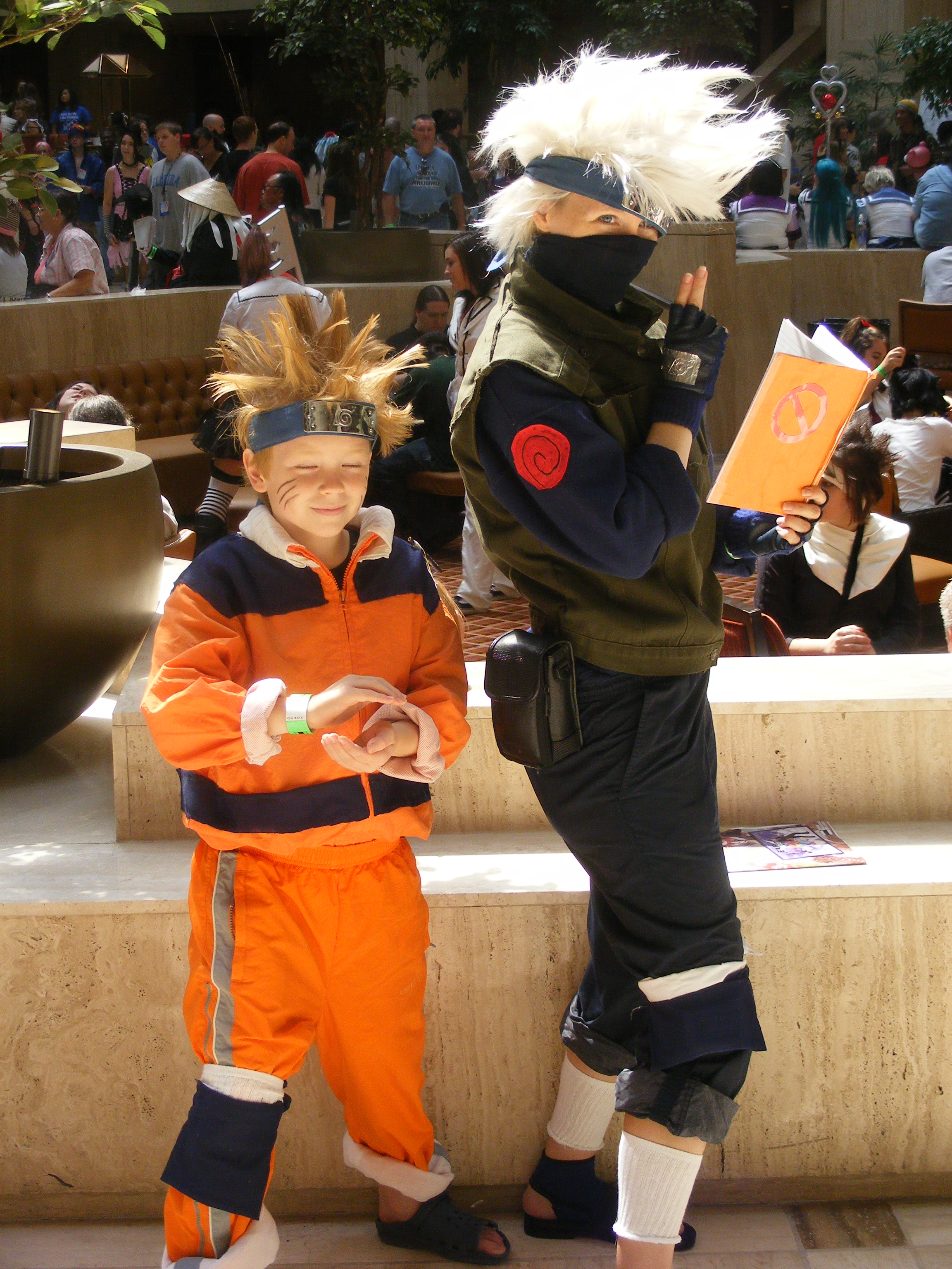 Cosplay photo taken at AWA 14. Naruto Uzumaki and Kakashi Hatake in the lobby. (Naruto)